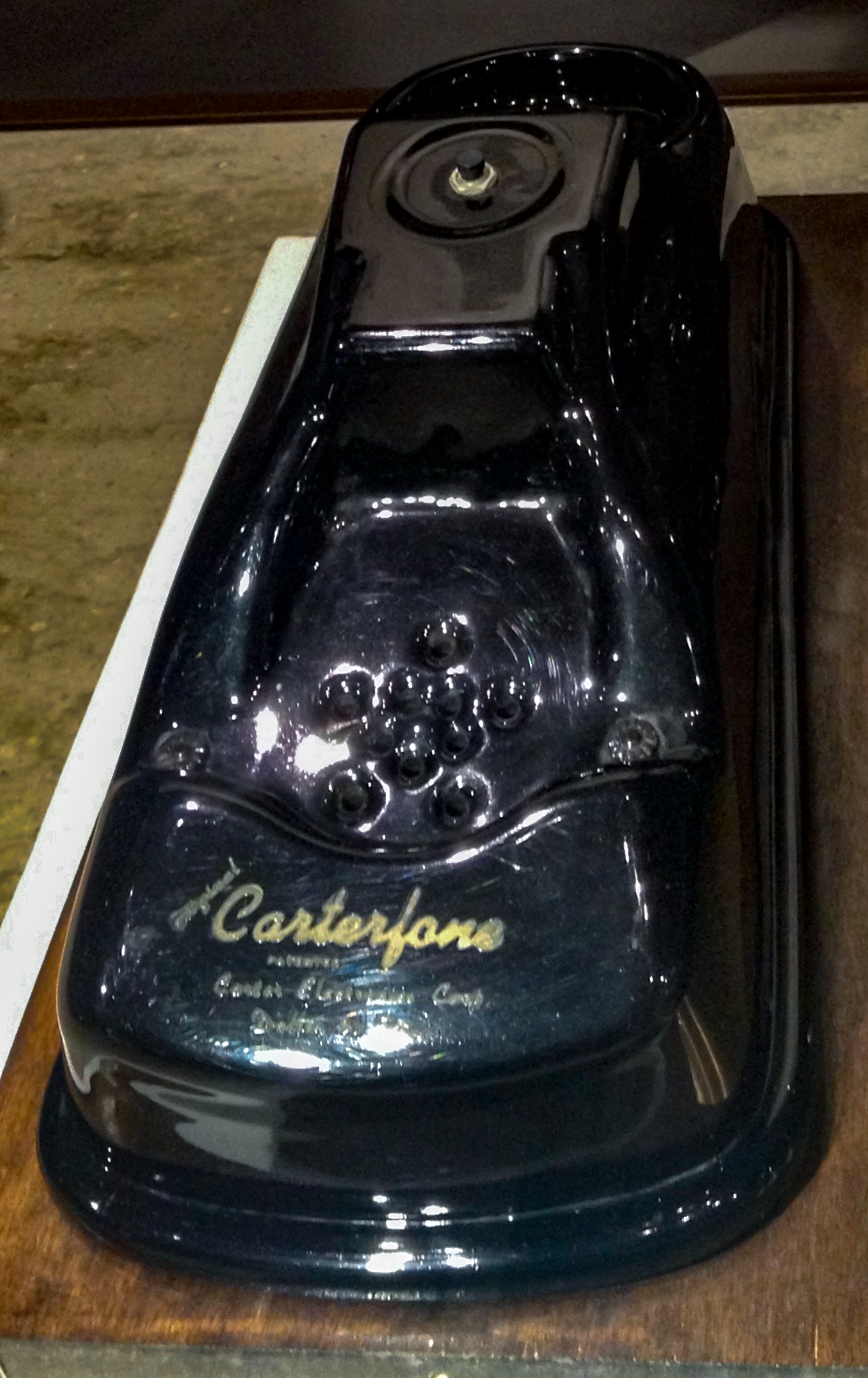 The original 1959 Carterfone made by Carter Electronics. The Carterfone allowed a mobile radio base station to connect a radio call to the public phone network by placing a phone's handset in this cradle. The telephone company objected, but the US FCC ruled in Carterfone's favor in a landmark 1968 decision. On display at the Computer History Museum